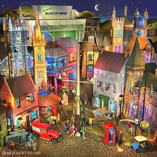 'Holywood Bulevard'